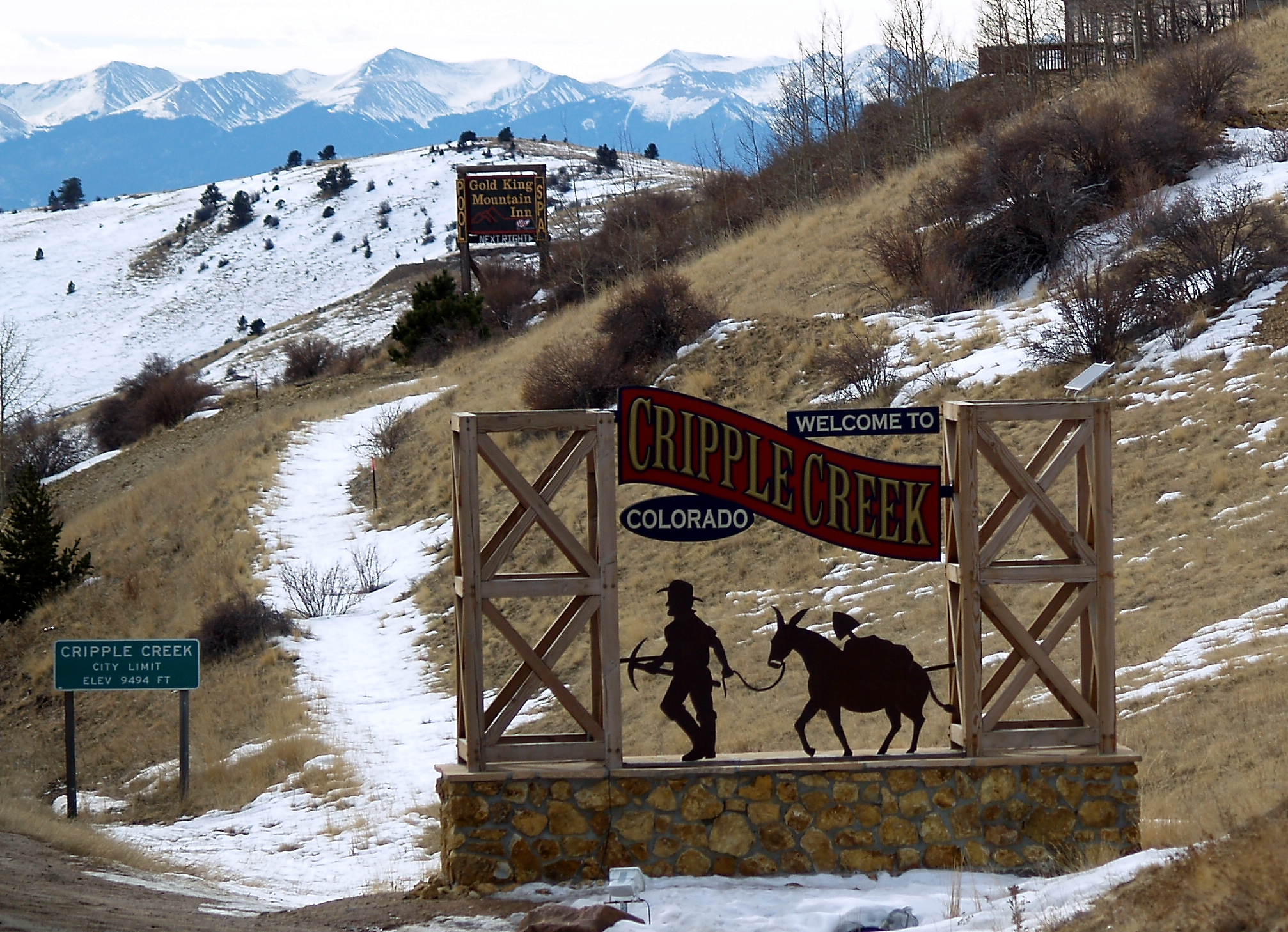 The sign welcoming visitors to Cripple Creek, Colorado in Teller County.